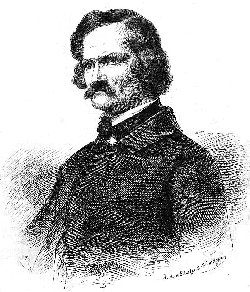 caption: "Dr. Hans Freiherr von und zu Aufsess."